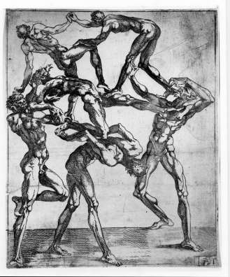 Human Pyramid, etching, one of a series